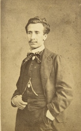 Osman Hamdi Bey in his early days (1860s)